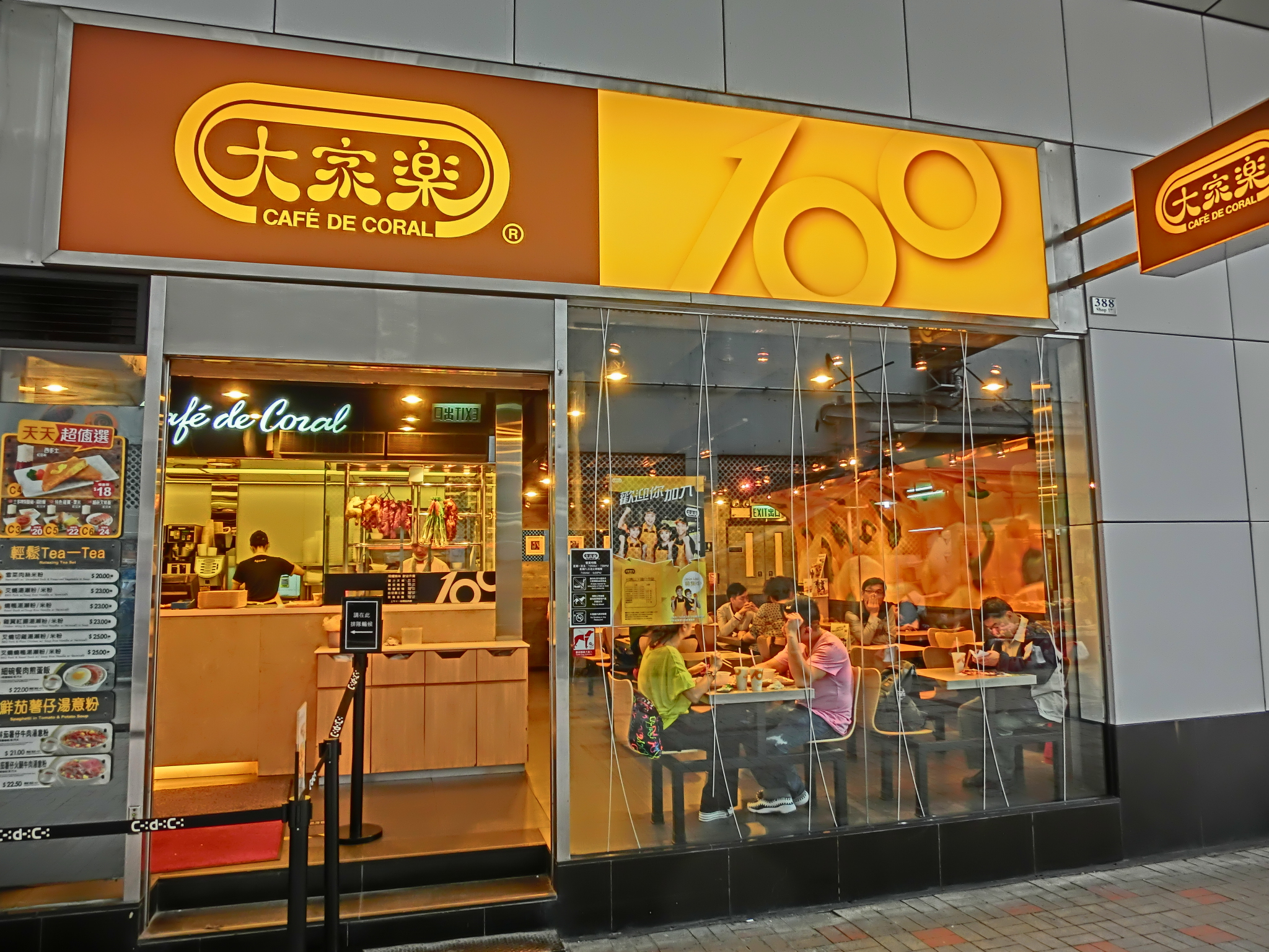 觀塘創紀之城1期, Millennium City phase 1, No.388 Kwun Tong Road, Hong Kong